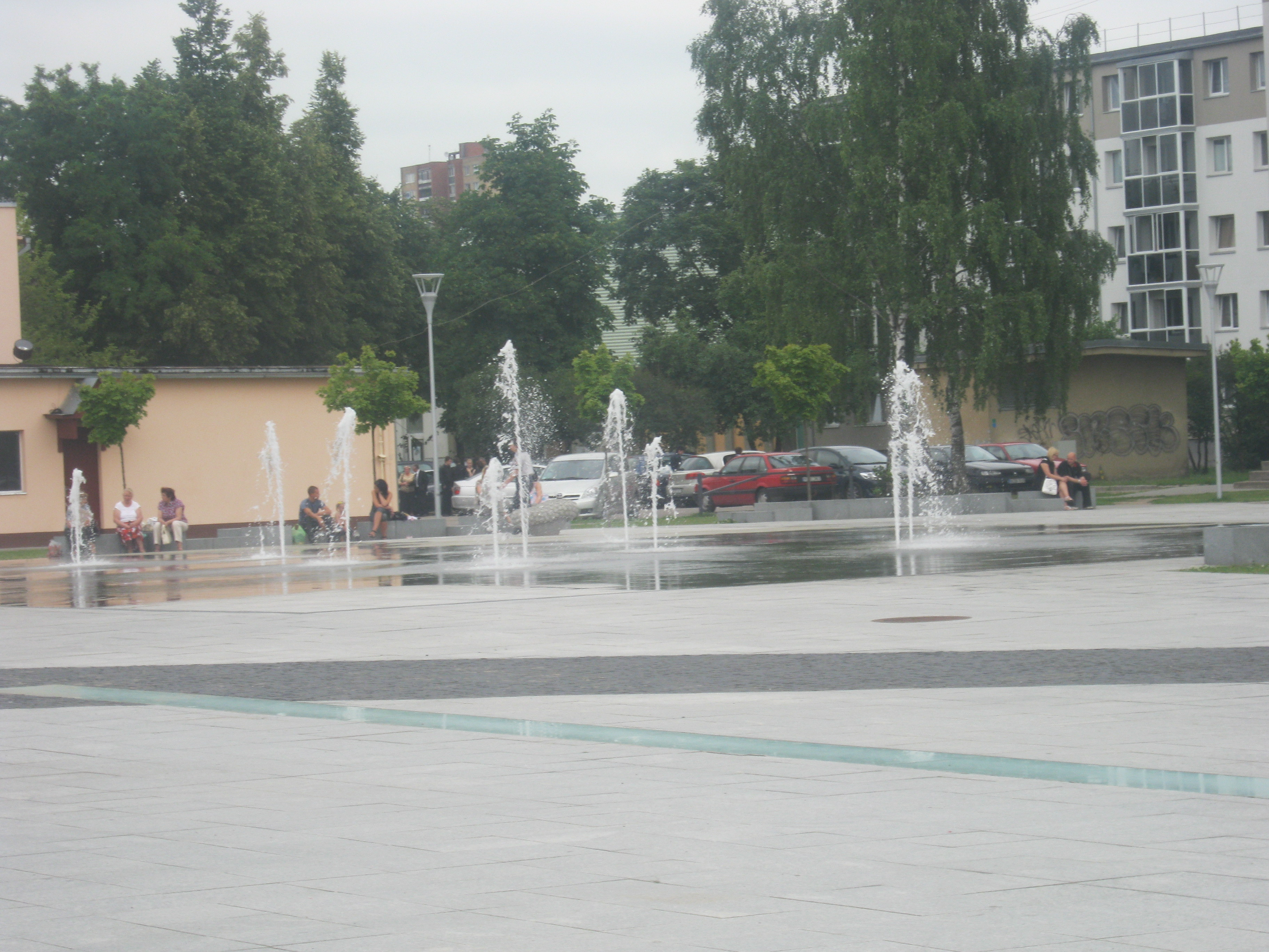 Jonava, Lithuania